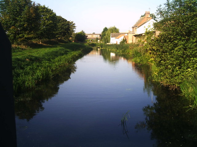 Bourne Eau from Cherry Holt Road bridge This pleasant ancient waterway and path is a contrast to the industrial processes going on in the vicinity of Cherry Holt Road.